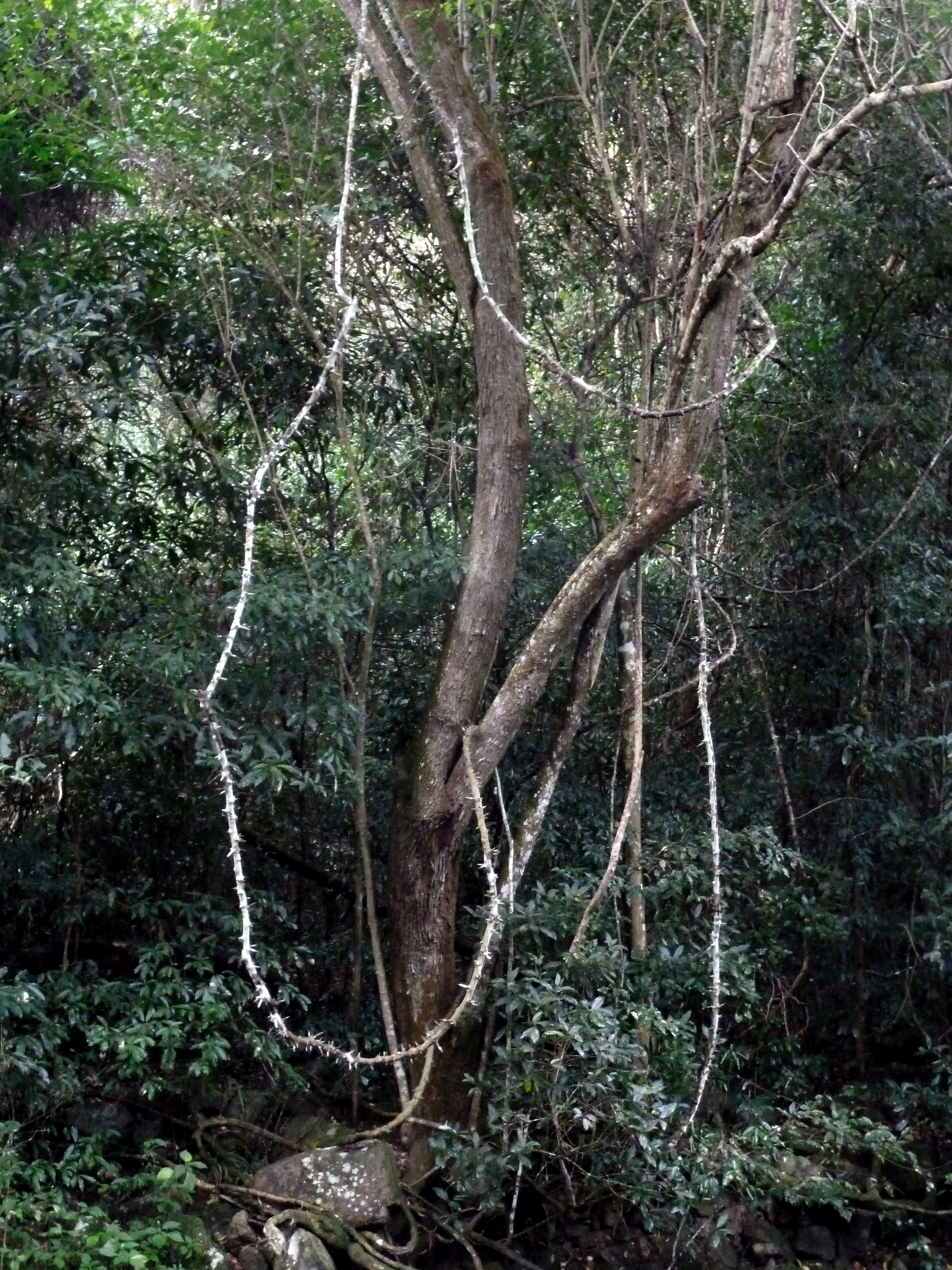 Habit of a Hluhluwe creeper on the bank of the Molweni river in Krantzkloof Nature Reserve